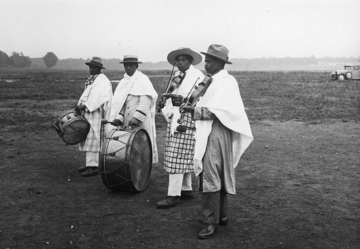 Musicians of the Hova (freeman) class of the Merina ethnic group in Madagascar